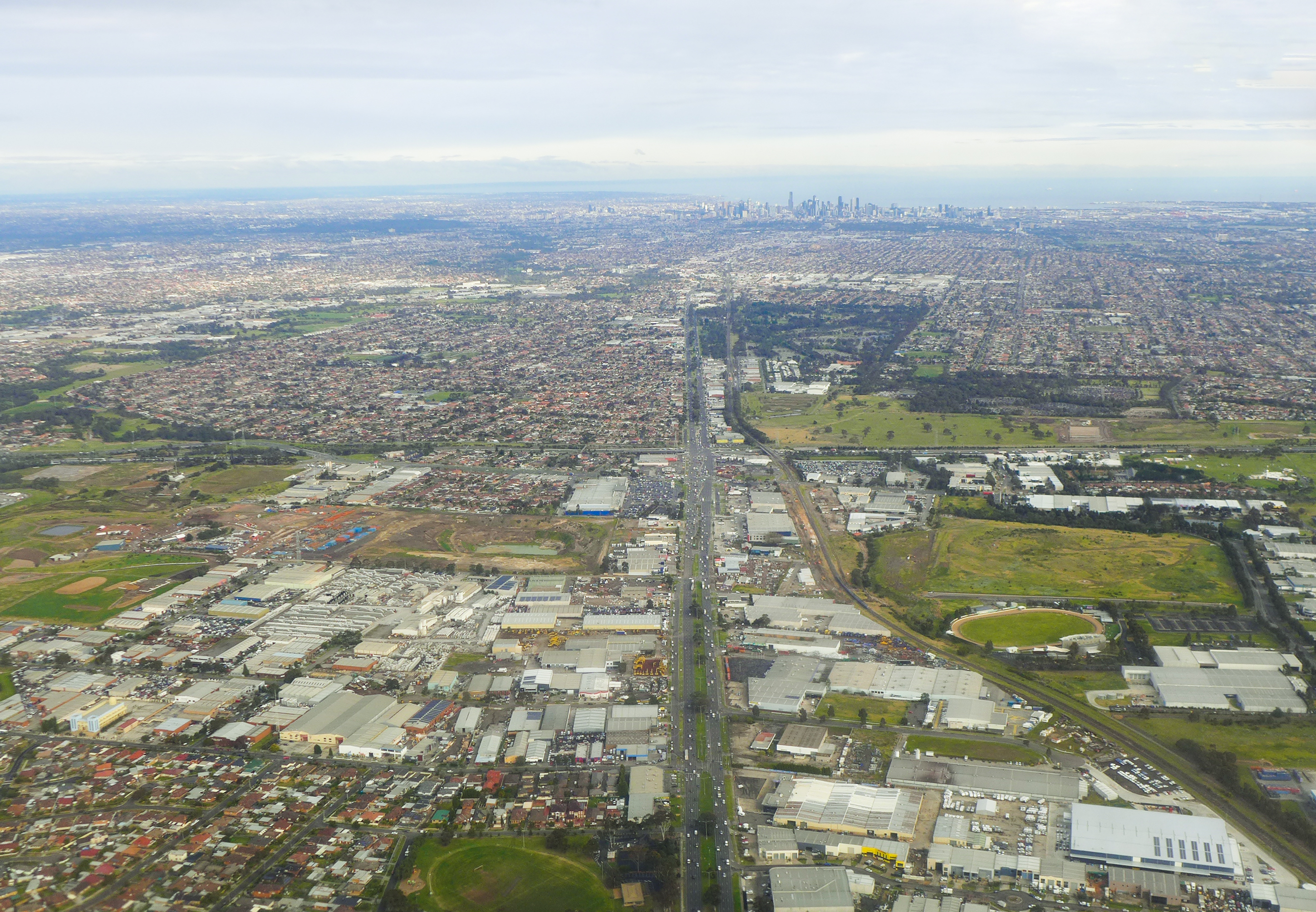 Fawkner, Victoria